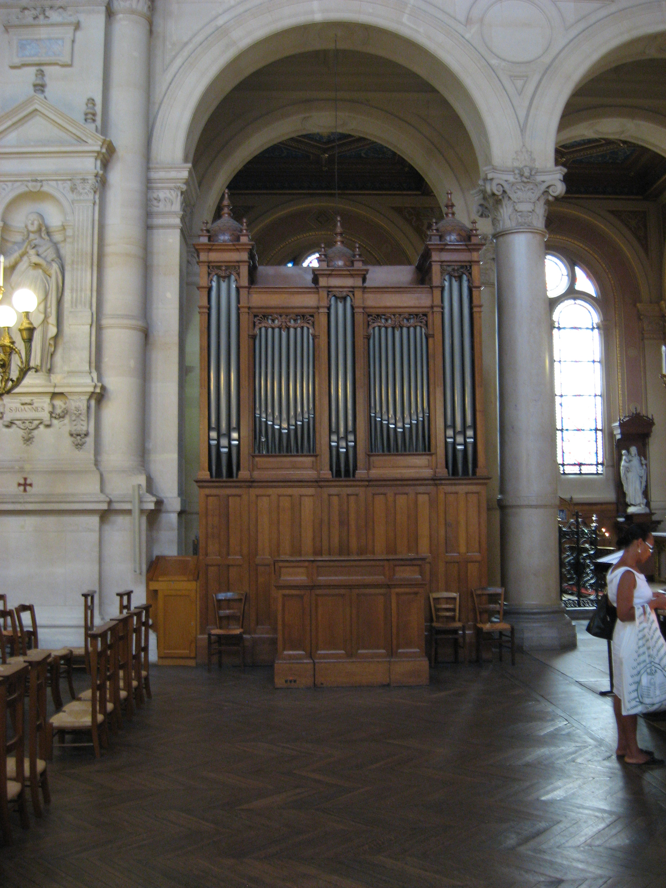 Choir Organ of Sainte-Trinité Paris